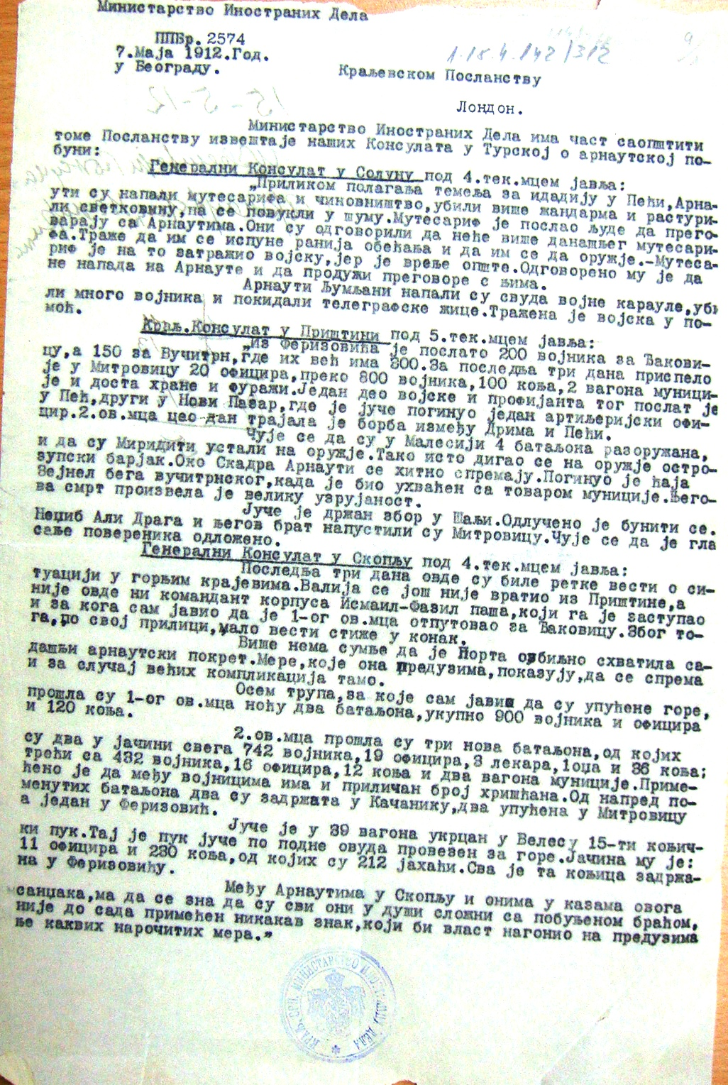 Serbian report about conflicts of Turkish army with Arnaut rebels. (7 May 1912) This media file is produced by Wikipedian in Residence in Category:Wikipedian in Residence at DARM in 2016.